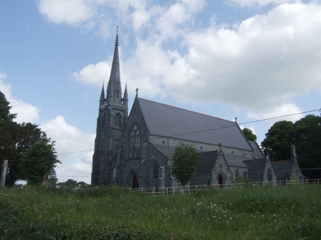 St. Alphonsus Liguori Parish Church, Kilskyre, County Meath, Ireland. Designed by the Gothic revival architect J. J. McCarthy. Construction started in 1847 during the Great Famine as a relief measure, opened in 1854 at a time when the building was not yet completed, dedicated in 1868. The spire was built in 1887, albeit not after the original design.